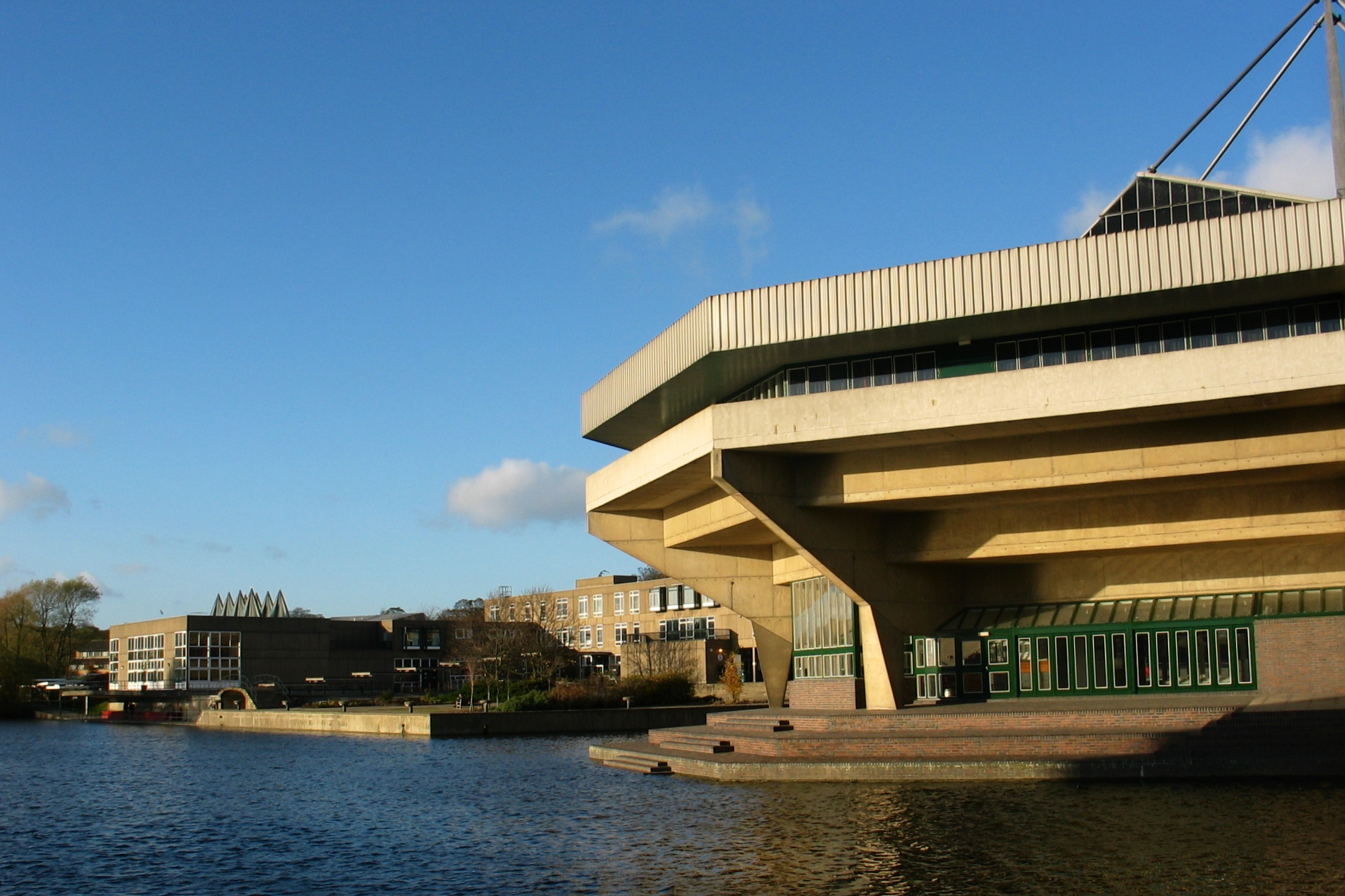 University of York: View from beneath the Central Hall building across the lake.